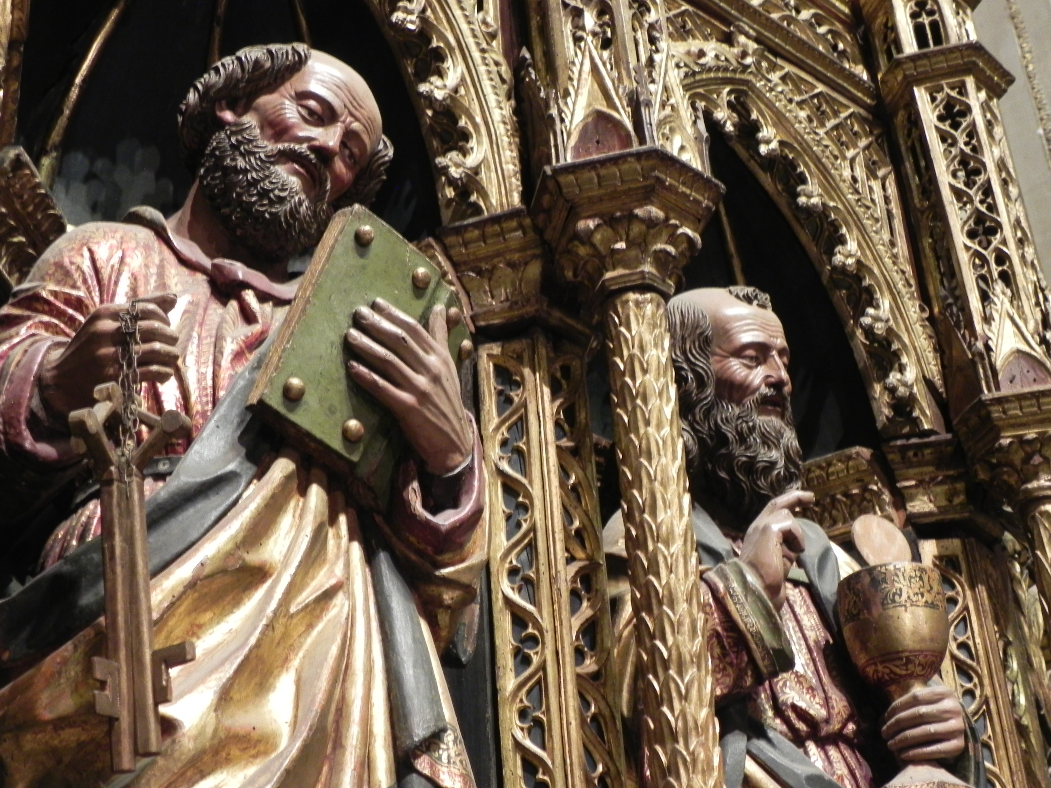 Salò (BS Italy) Cathedral Main Altar of the church (detail) Frame by Bartolomeo da Isola Dovarese Statues by Pietro Bussolo Polychrome and golded wood XVI century - 1470-1501